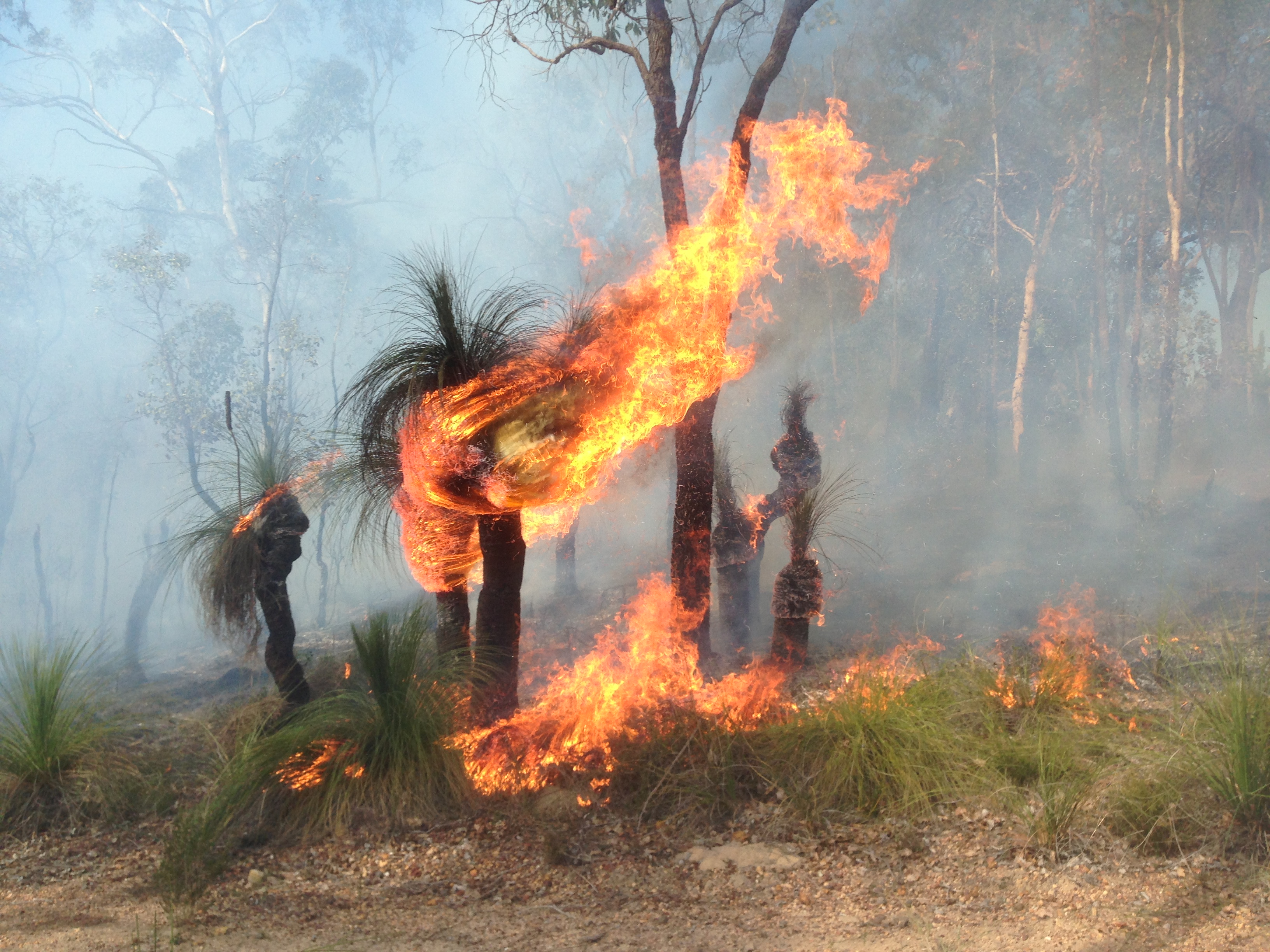 Blackboy on fire during hazard reduction burn Glen Forrest, Western Australia